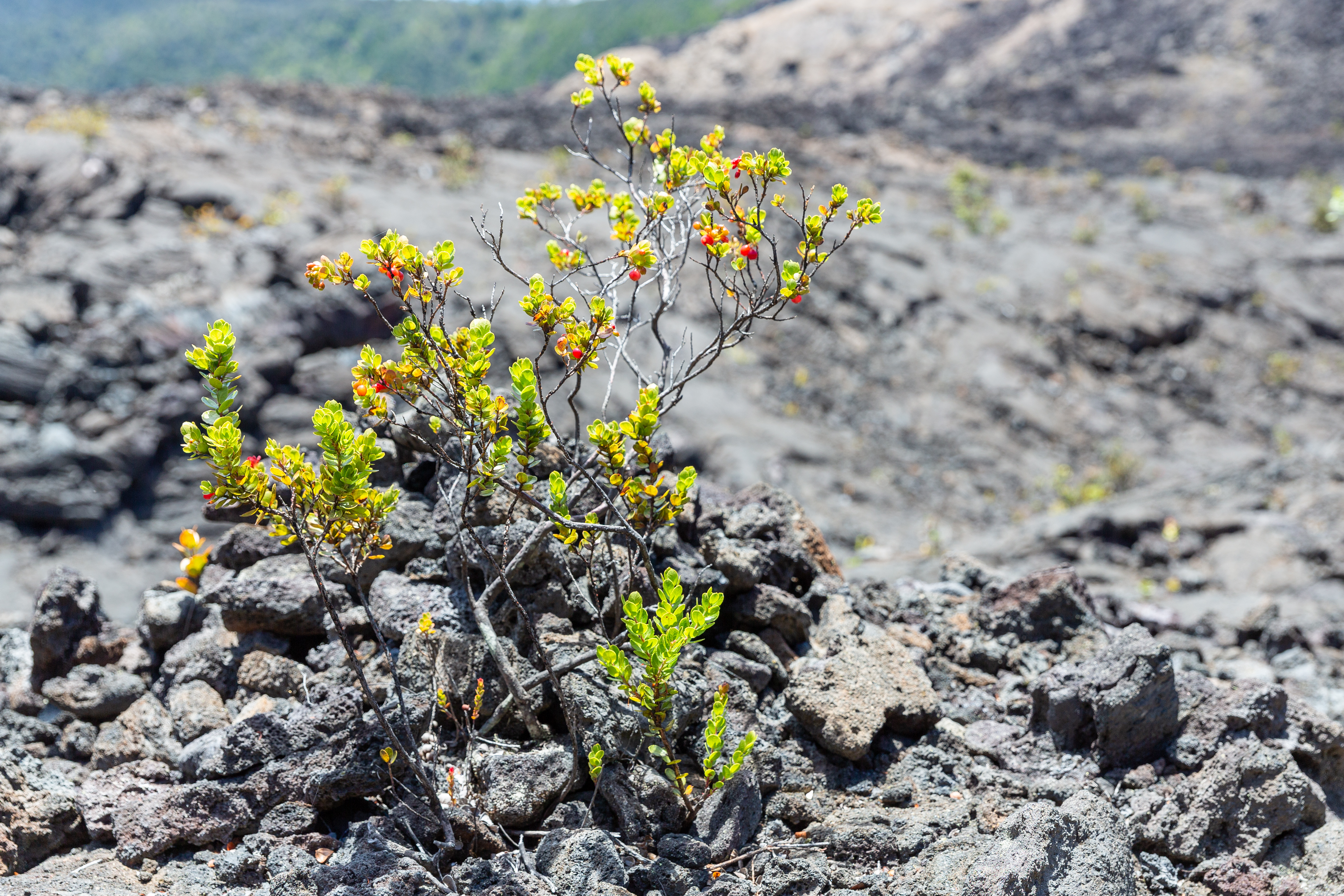 Vaccinium reticulatum in Hawaiʻi Volcanoes National Park